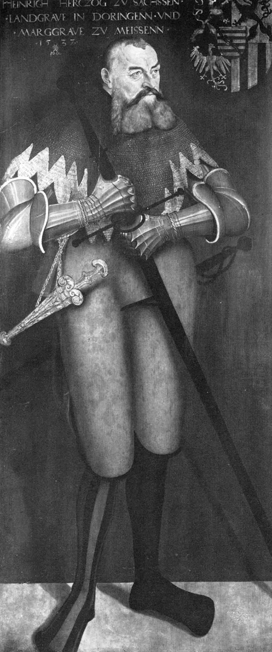 'Portrait of Duke Henry of Saxony', by Lucas Cranach the Elder, painted in 1537. The work was destroyed in the Bombing of Dresden in World War II (February 1945). - Dimensions: 208 x 89 cm